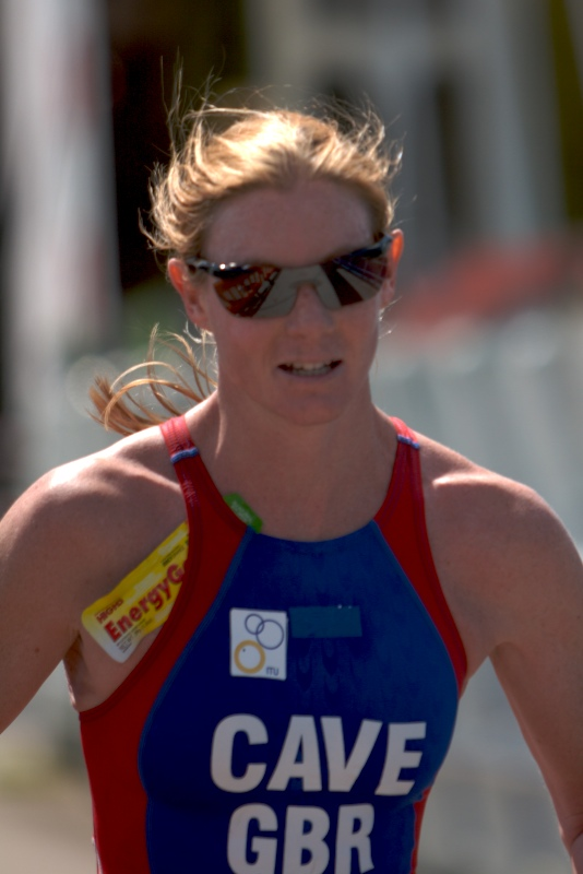 British athlete Leanda Cave